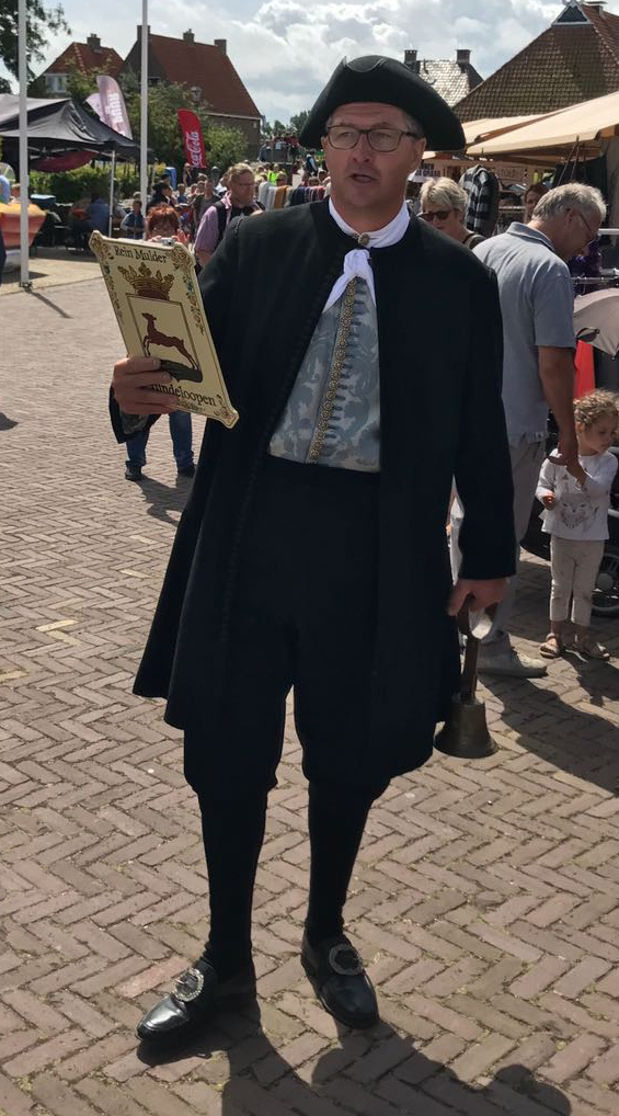 Town crier in Hindelooper traditional dress on the Hindelooper harbor quay